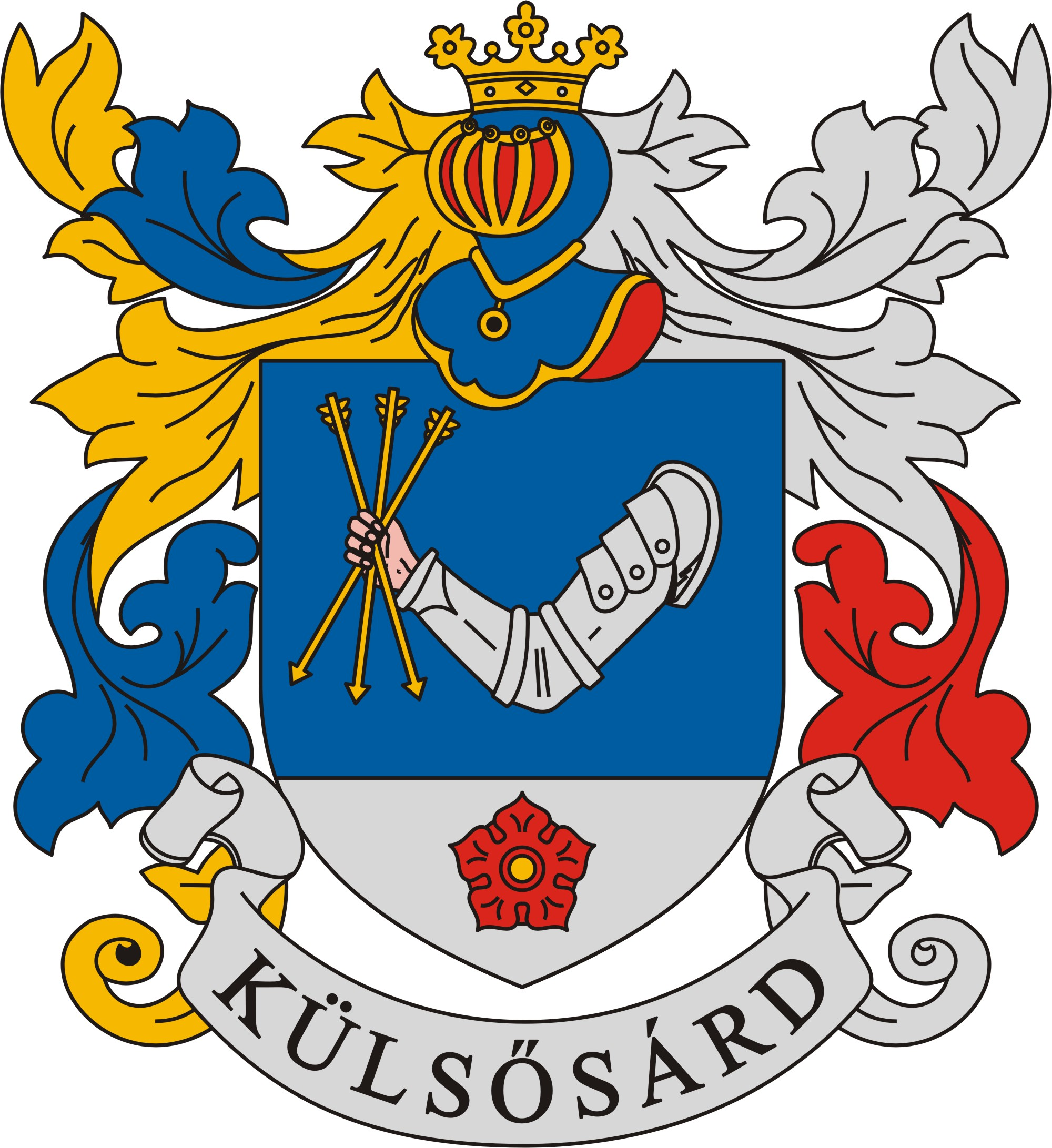 Coat of arms of Külsősárd, Hungary